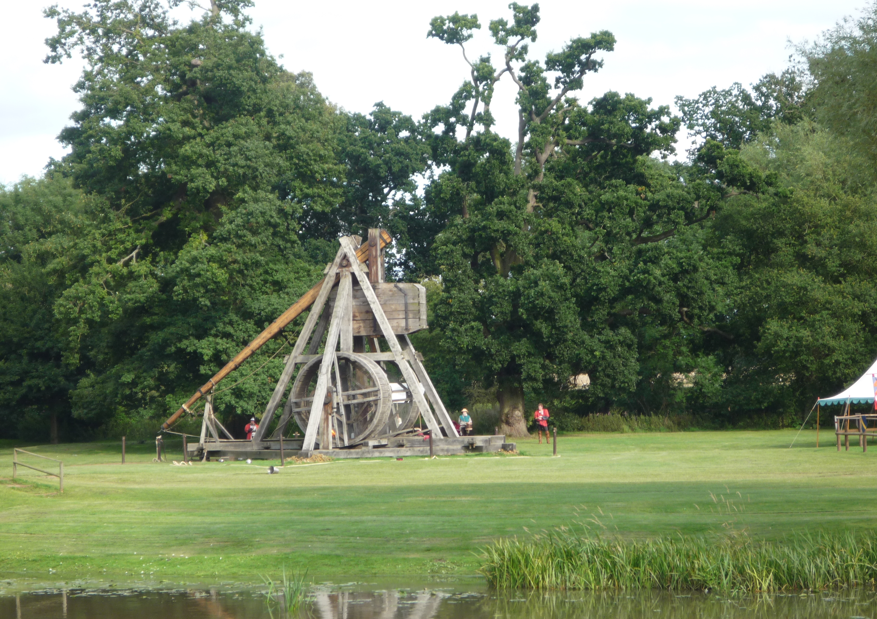 The trebuchet at Warwick Castle. Around it are a crew preparing to load the trebuchet.